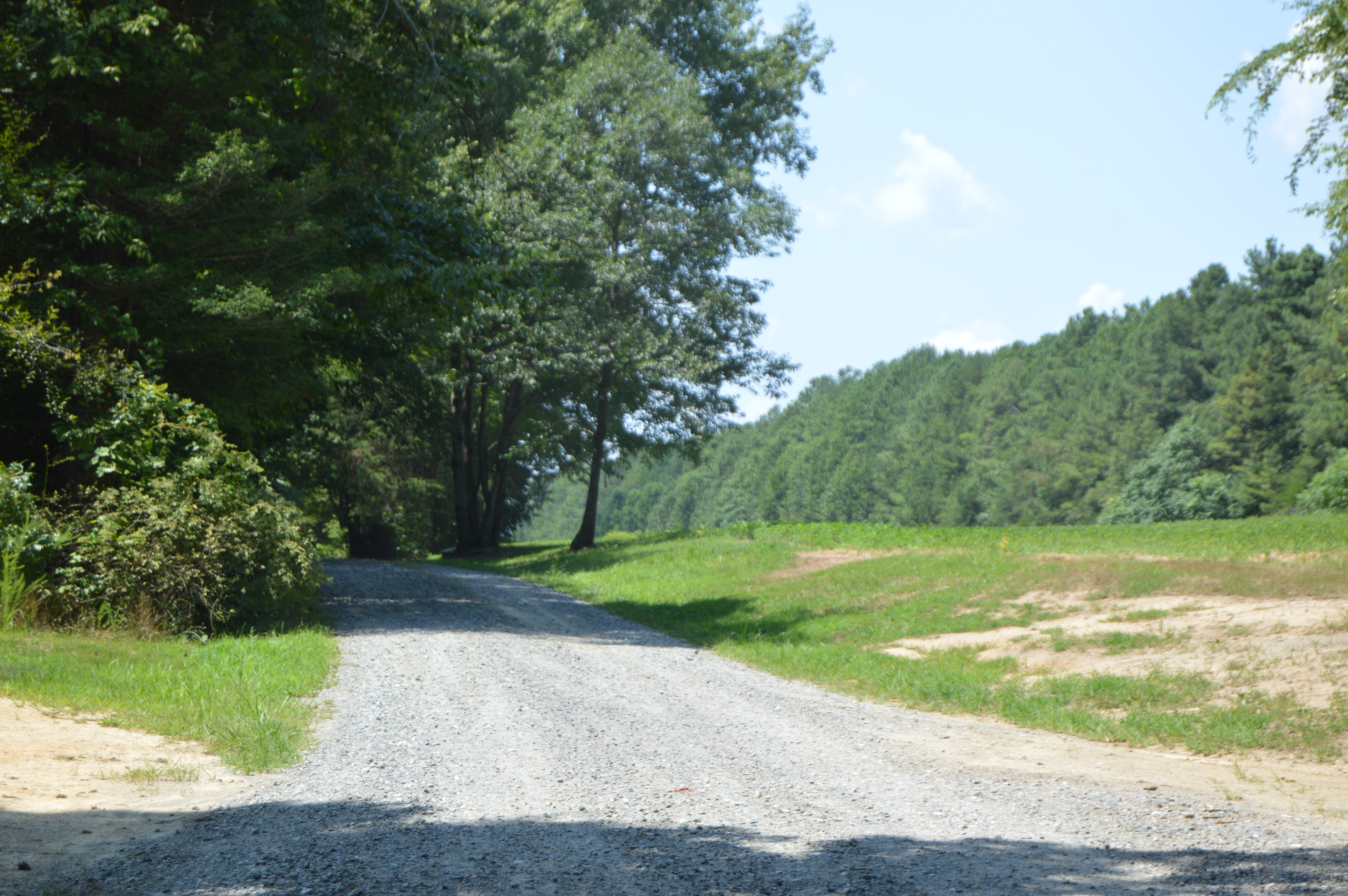 Entrance to the Oakland estate, located off Old Ridge Road northwest of Negro Foot in Hanover County, Virginia, United States. The estate is listed on the National Register of Historic Places.